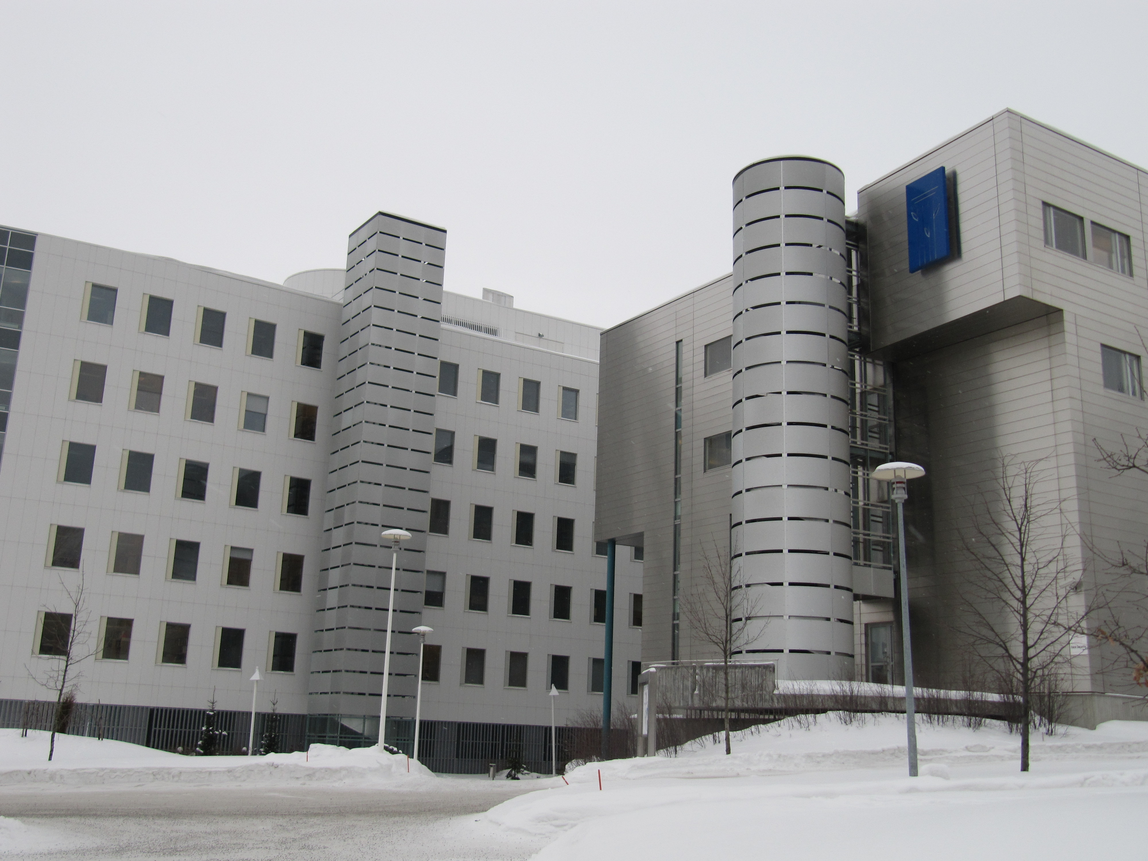 University of Tampere in Tampere, Finland